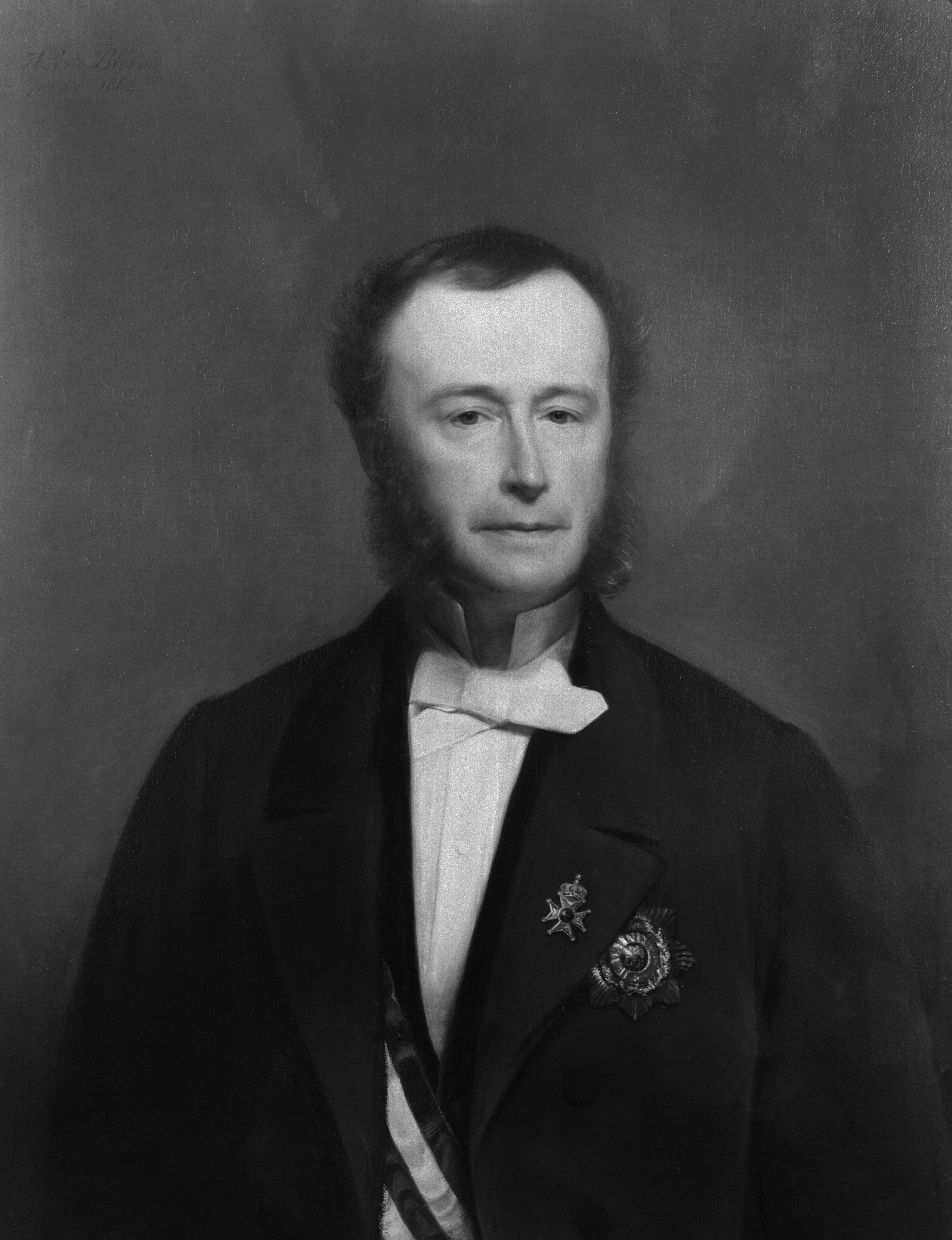 Jacob George Hieronymus van Tets (1812-1885) oil on canvas 80 x 63 cm signed t.l.: H.A. de Bloeme / pinxit 1862